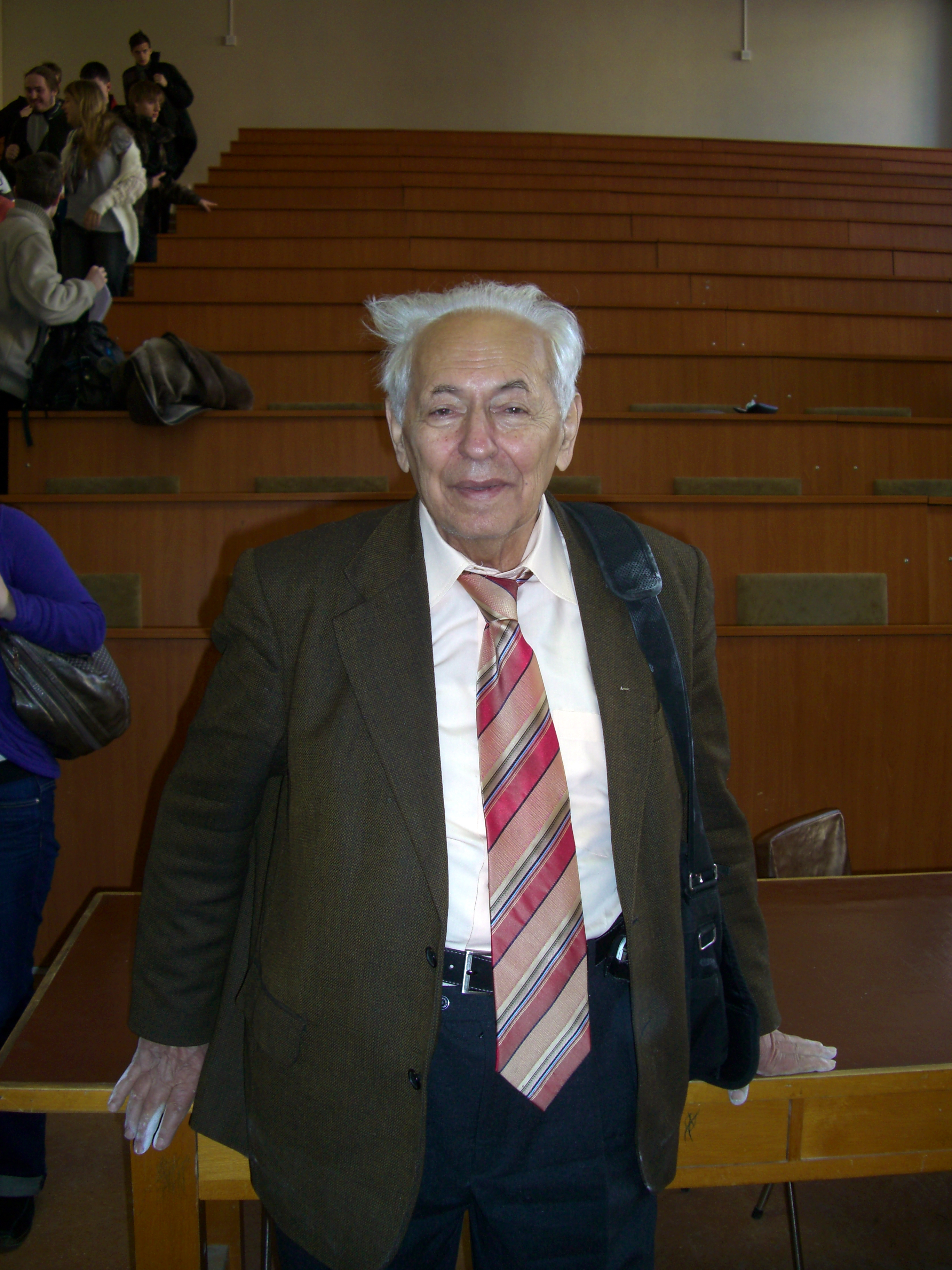 Semen Solomonovich Gershtein ('Семён Соломонович Герштейн' in Russian), Russian physicist, RAS academician